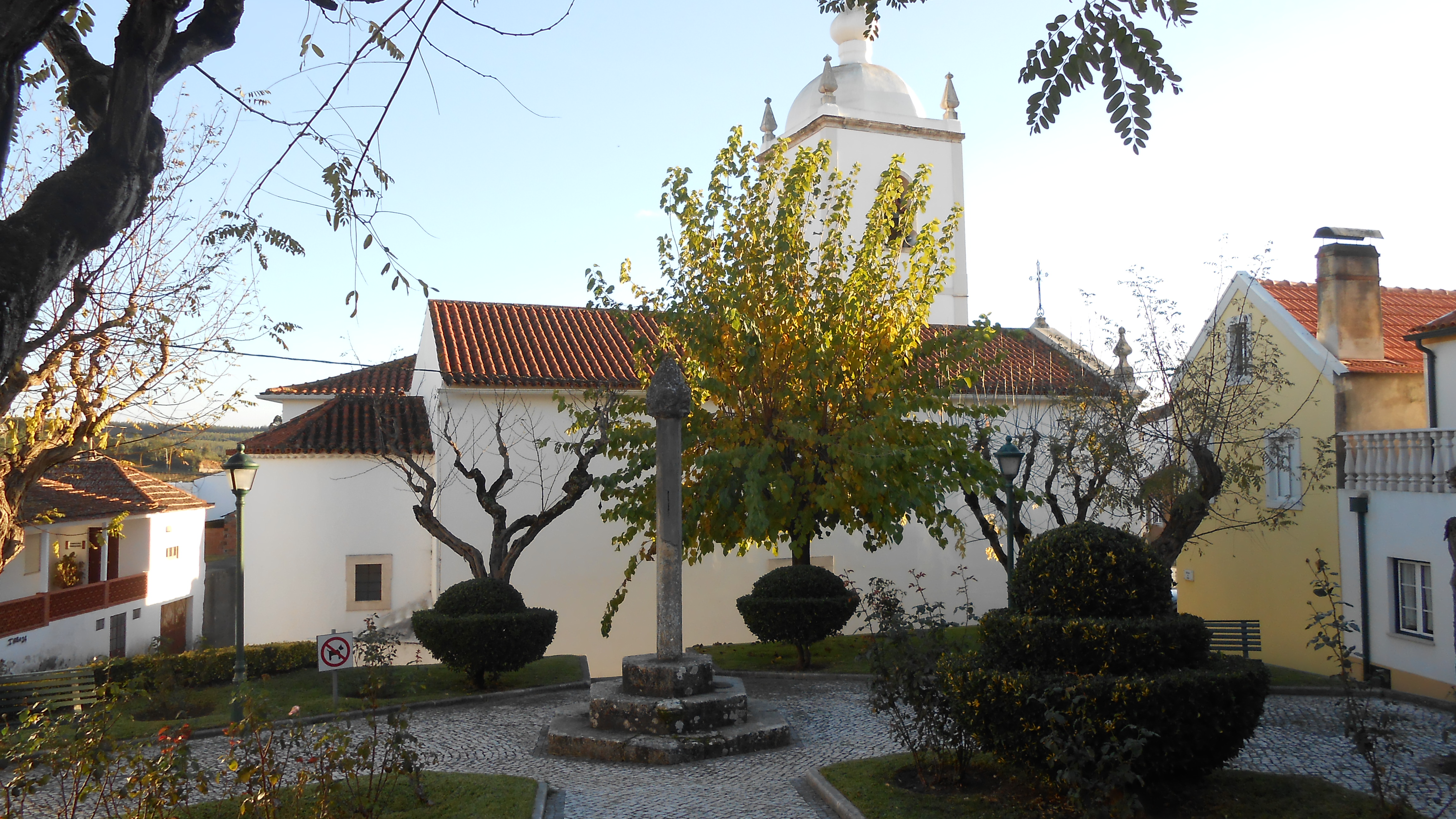 The pillory in Vila Nova de Anços, erected in 1515.